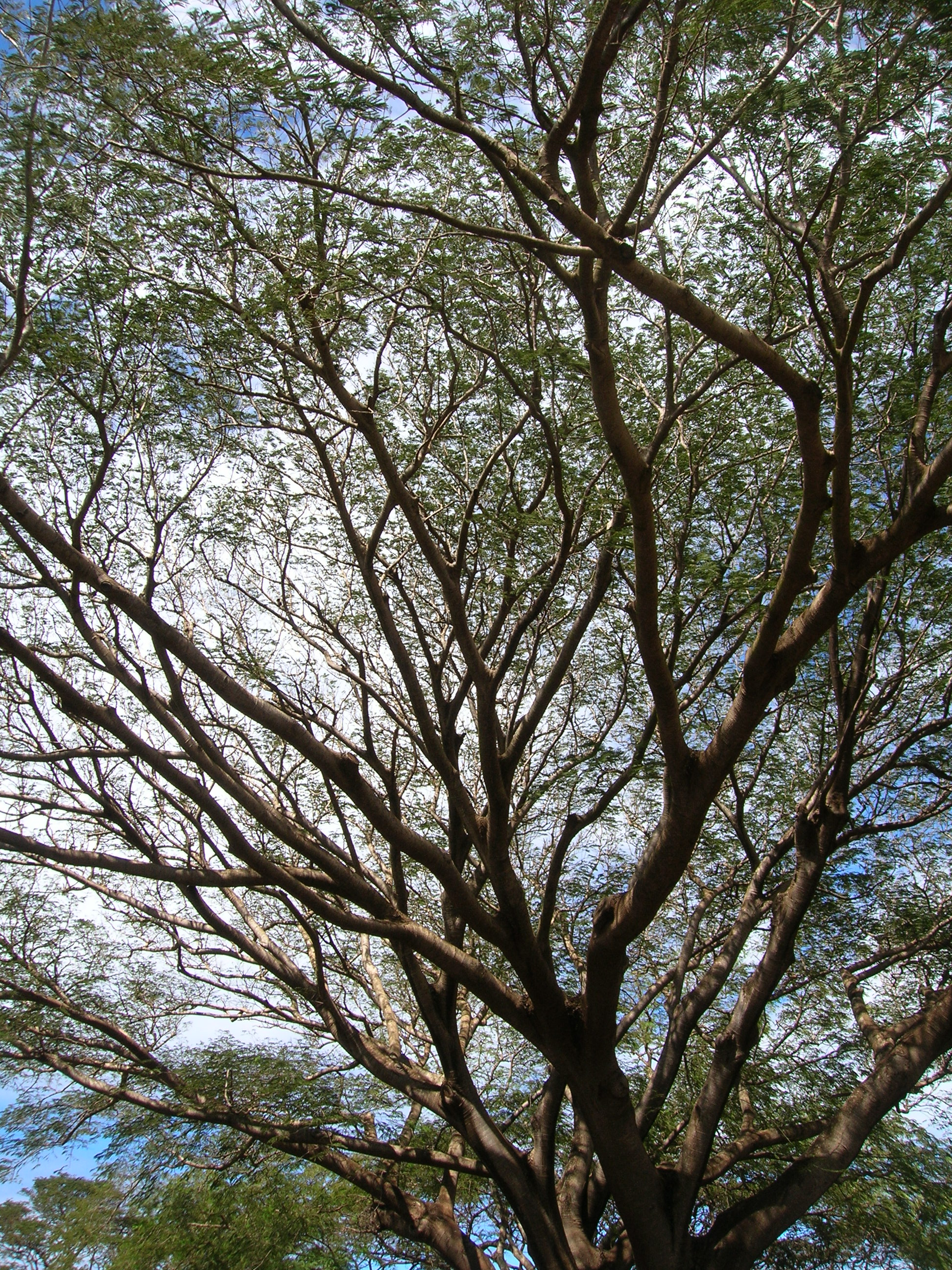 Enterolobium cyclocarpum (habit). Location: Maui, Puunene